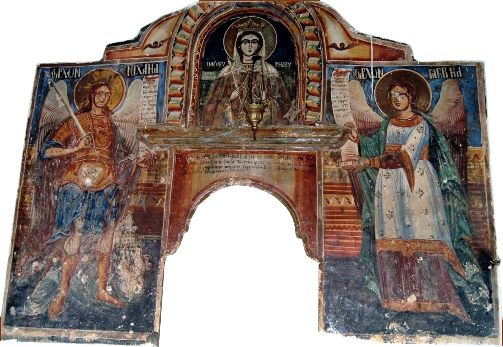 Saint Paraskevi Church in Zhelin Chiliodendro Western Wall Fresco